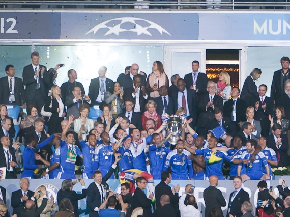 RA1_6615 - cropped